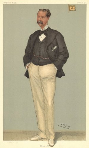 Caricature of Thomas Johnstone Lipton (1848-1931).